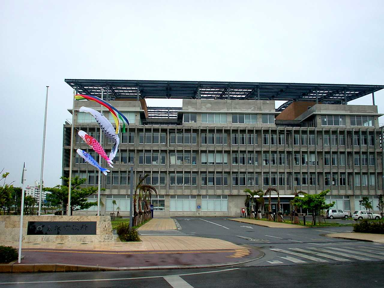 Itoman City Hall in Okinawa, Japan.